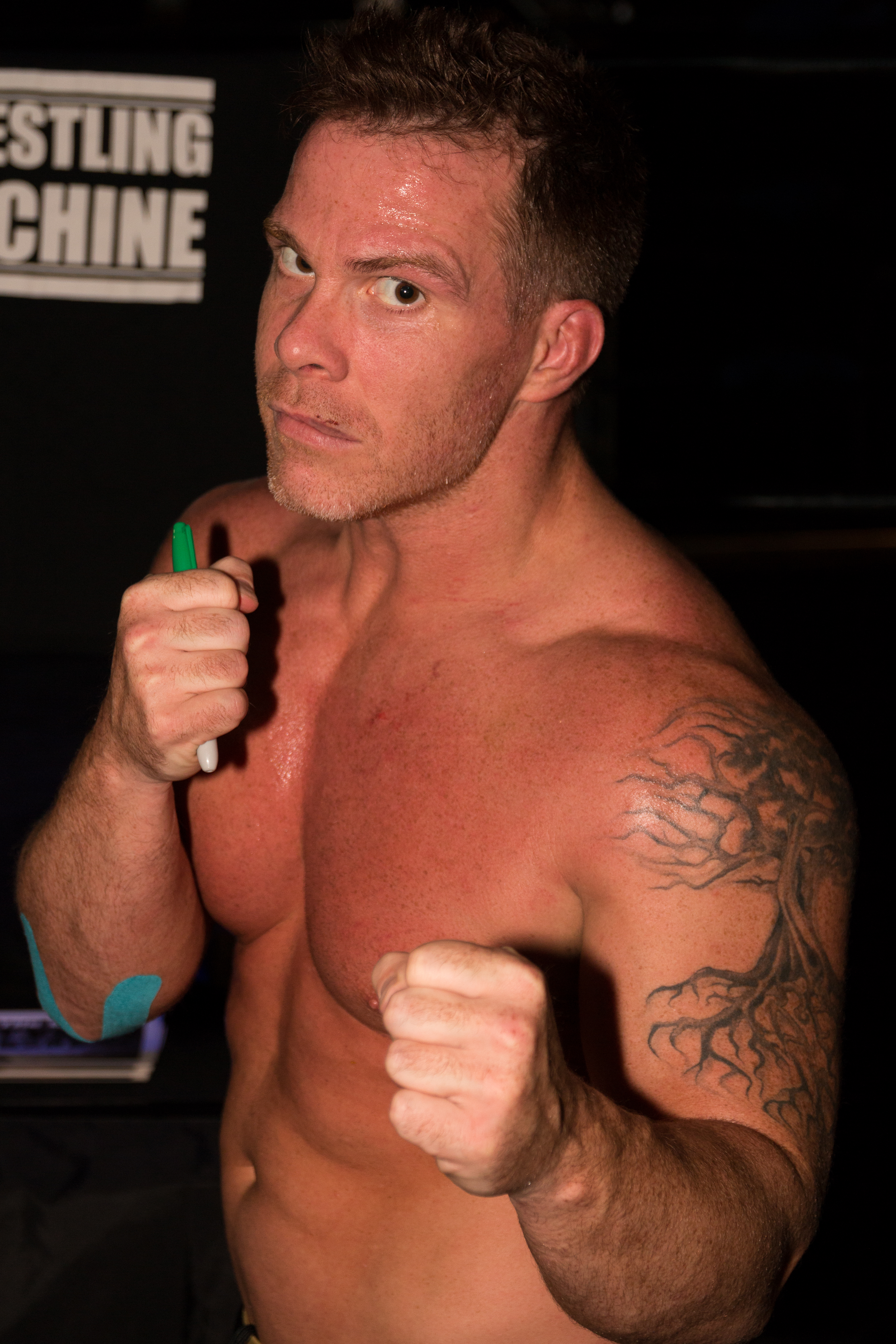 Independent wrestler Tyson Dux at a Smash Wrestling show in London, ON